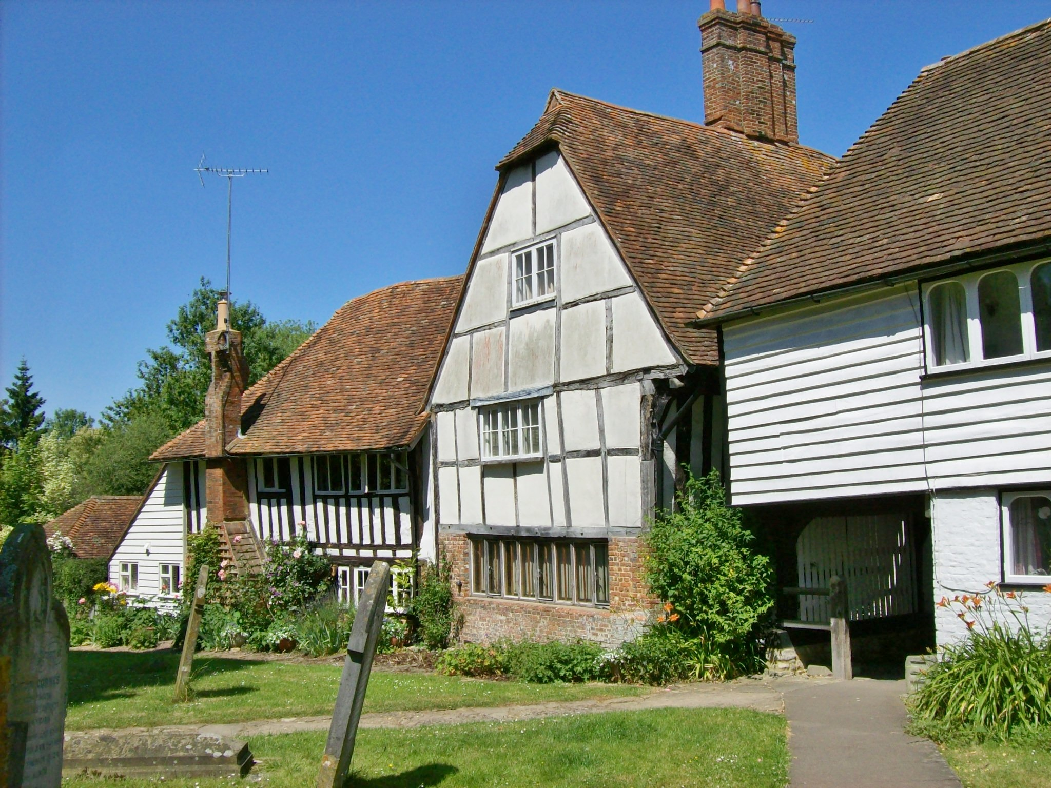 Smarden churchyard